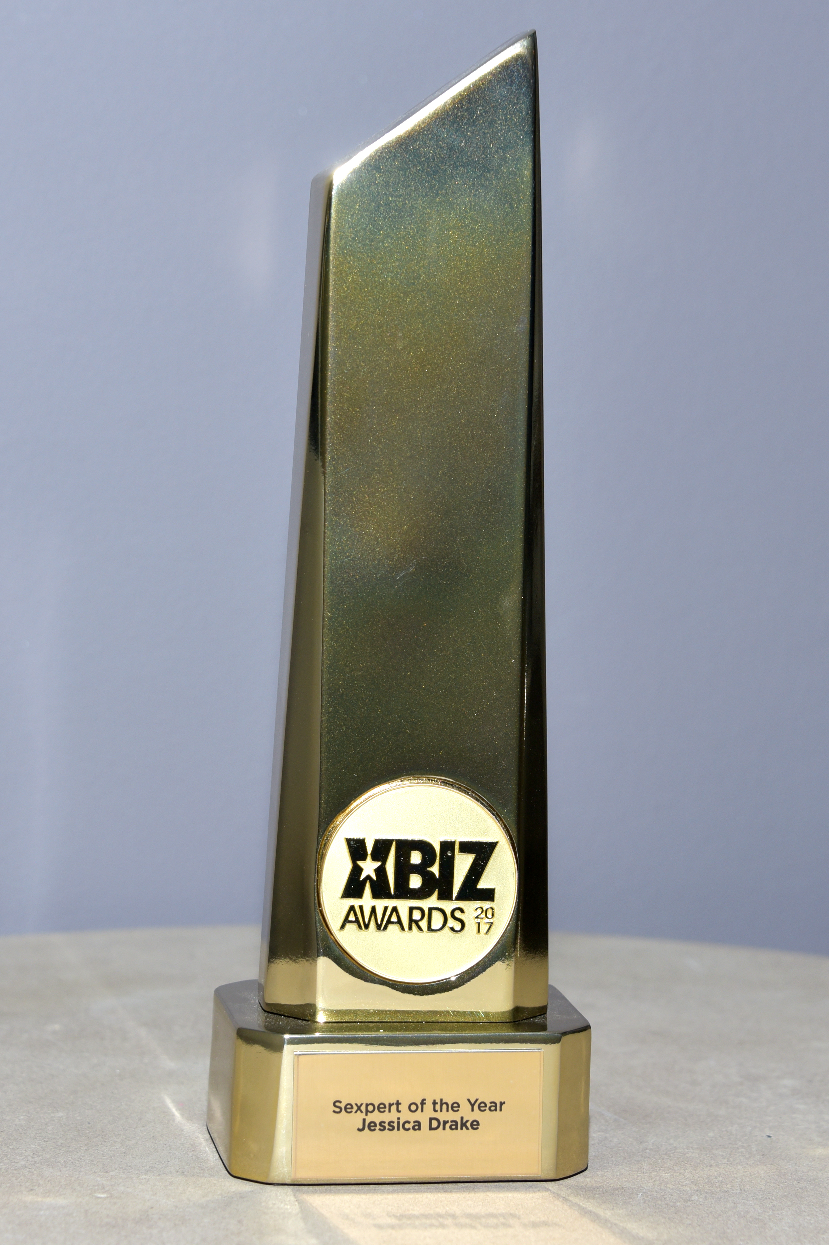 XBIZ Award Trophy 2017